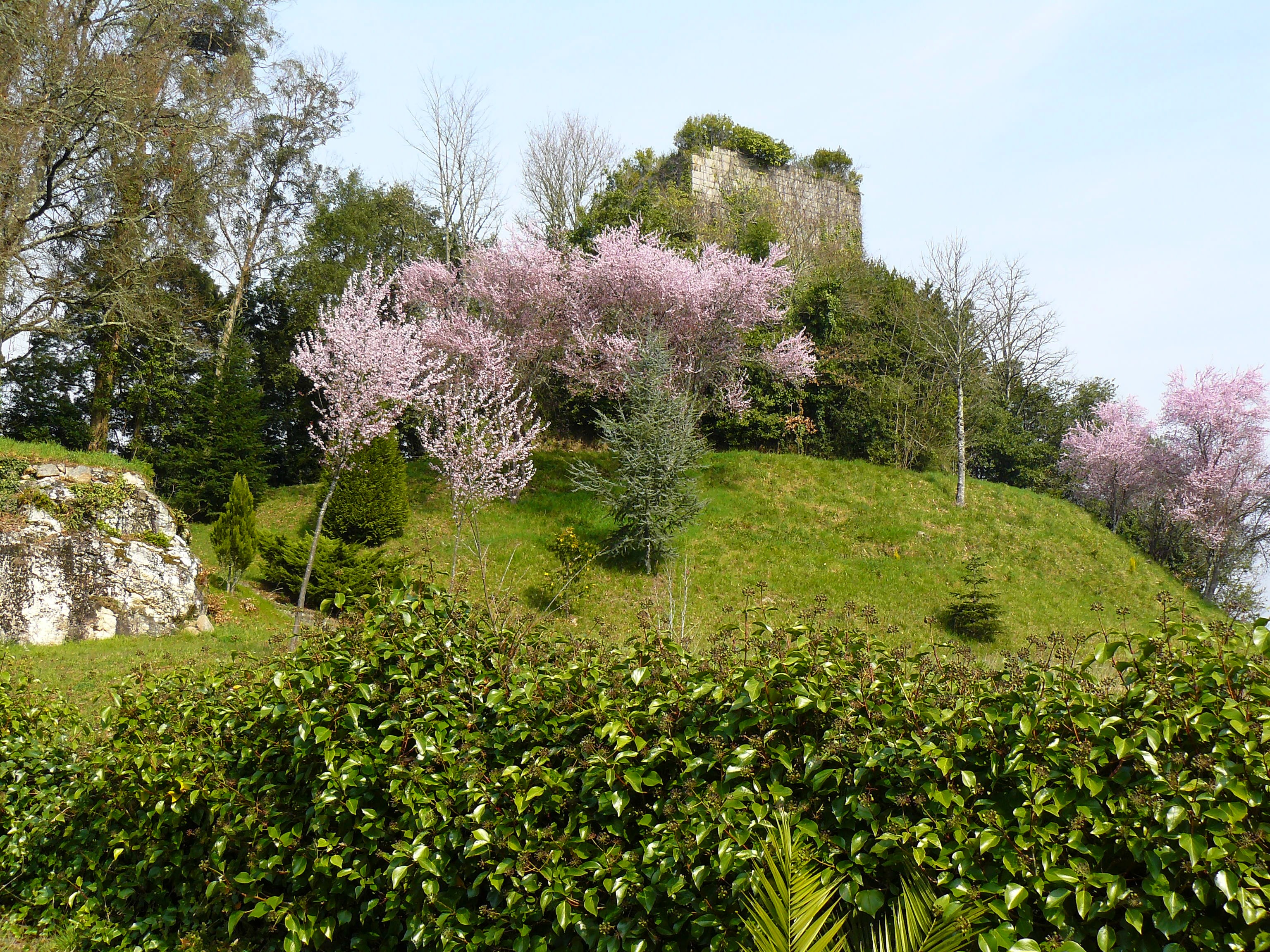 Tower of Cira - Silleda - Galicia - Spain